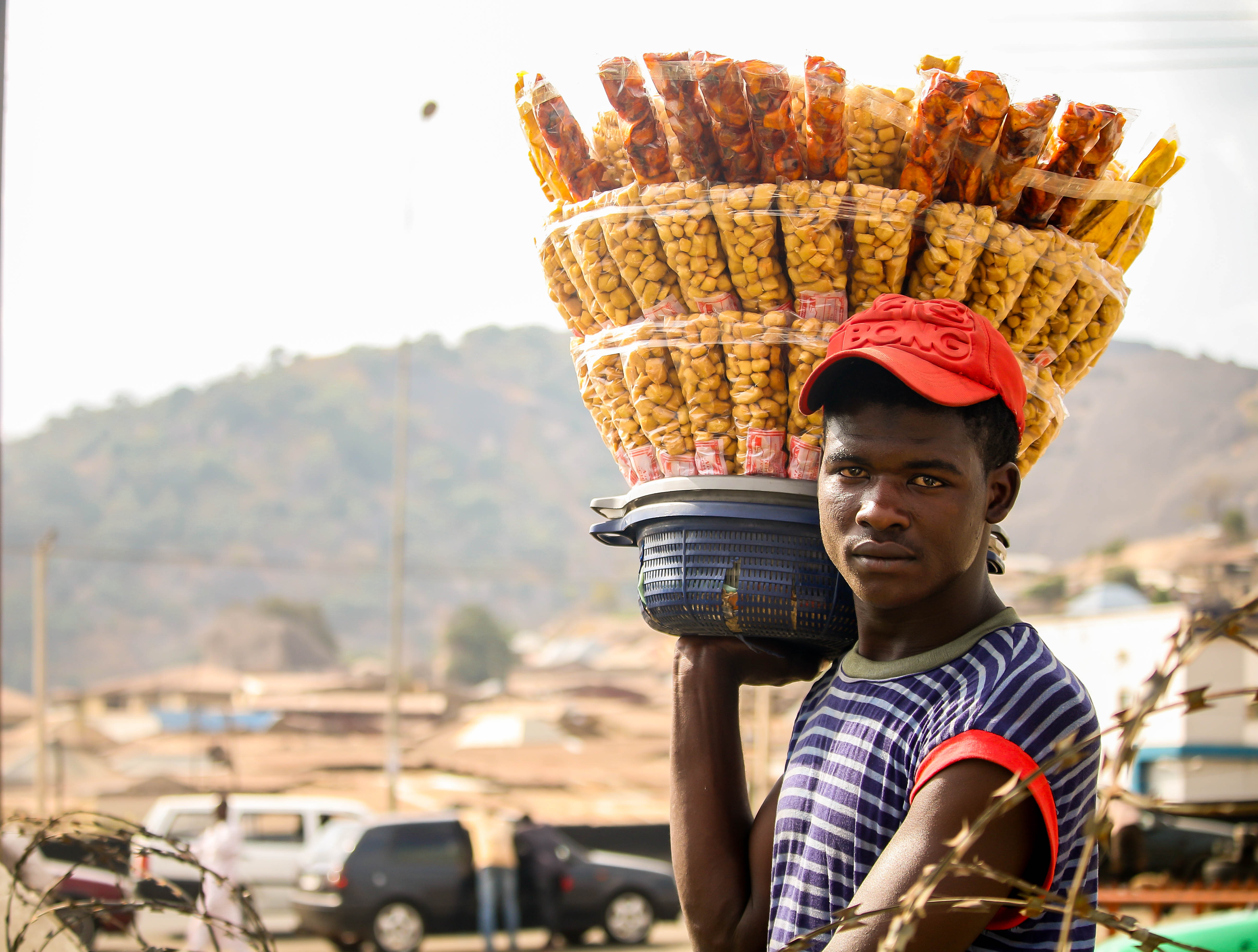 This is an image of "African people at work" from Nigeria